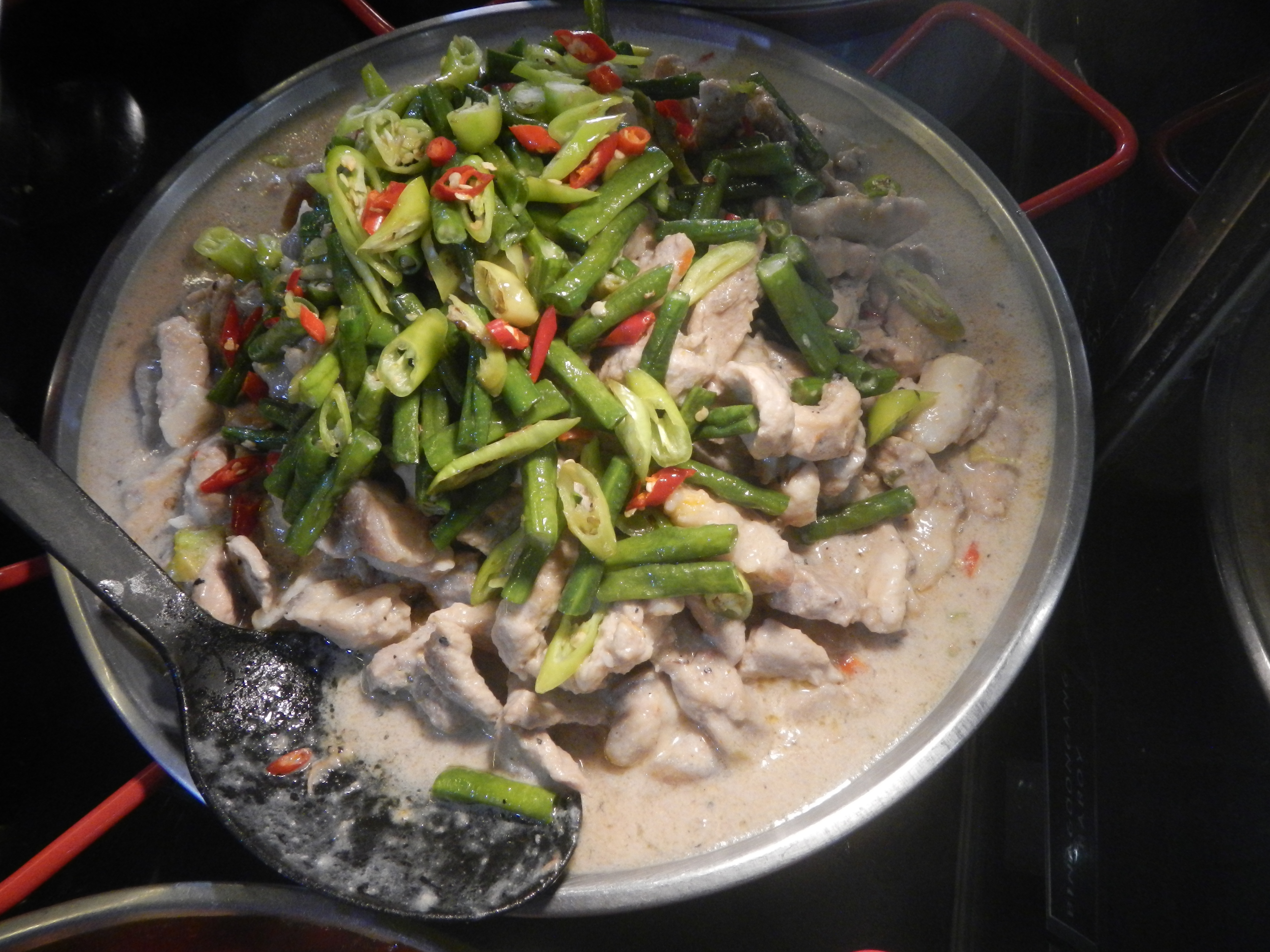 Philippine cuisine List of Philippine dishes Banana ketchup Lechon sauce Otap (food) Turon (food) Bicol express Laing Kaldereta Dinuguan Bopis Lechon kawali Longaniza Longaballs Tocneneng Barangay Pagala, 14°58'14"N 120°53'26"E Baliuag, Bulacan, Bulacan, along DRT Highway or Maharlika Highway (Cagayan Valley Road, Baliuag-Pulilan-Guiguinto, Bulacan) Pan-Philippine Highway, also known as the Maharlika "Nobility/freeman" Highway or Asian Highway 26, Cagayan Valley Road (Note: Judge Florentino Floro, the owner, to repeat, Donor Florentino Floro of all these photos hereby donate gratuitously, freely and unconditionally all these photos to and for Wikimedia Commons, exclusively, for public use of the public domain, and again without any condition whatsoever).